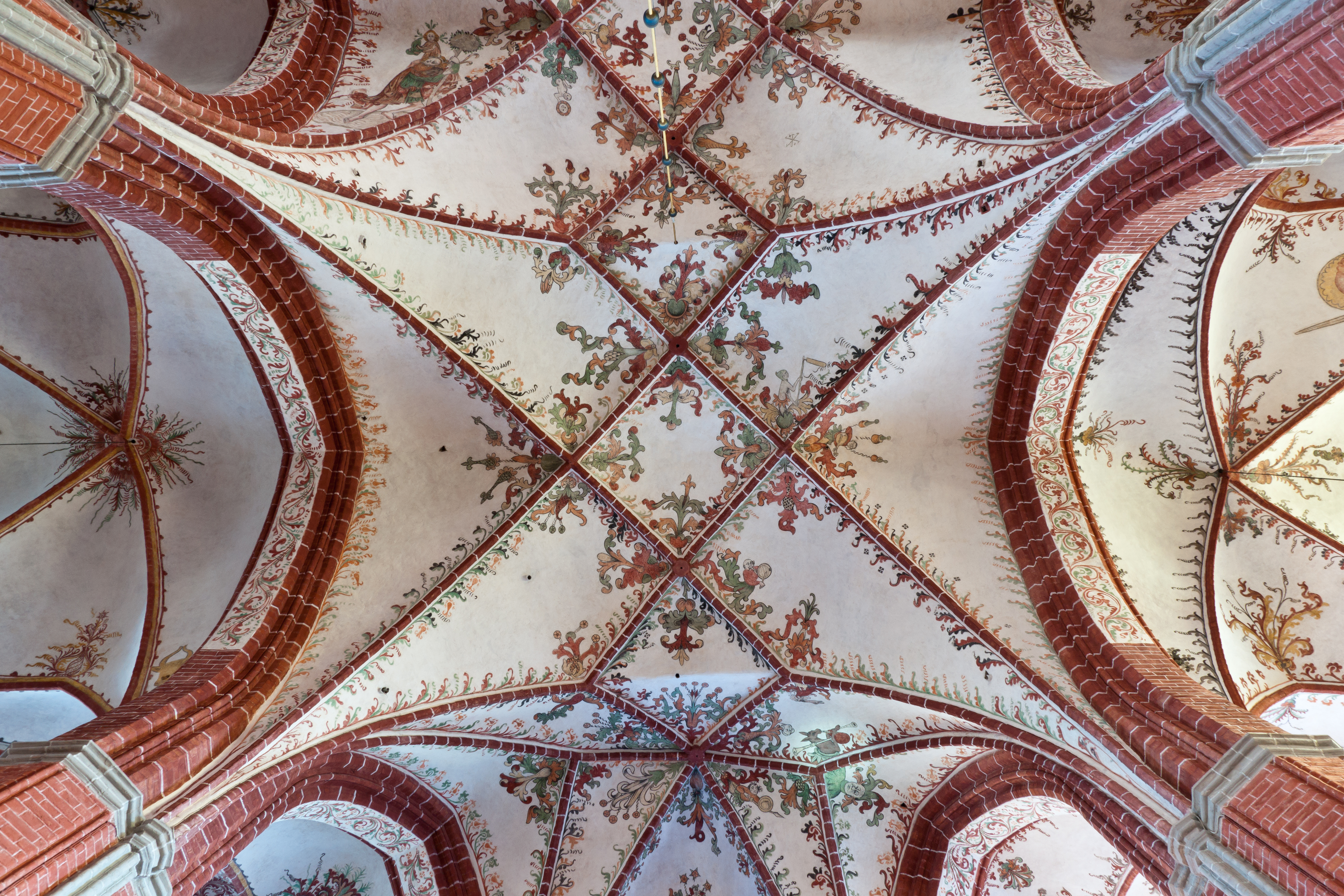 Interior of the Katharinenkirche in Brandenburg an der Havel (Germany)